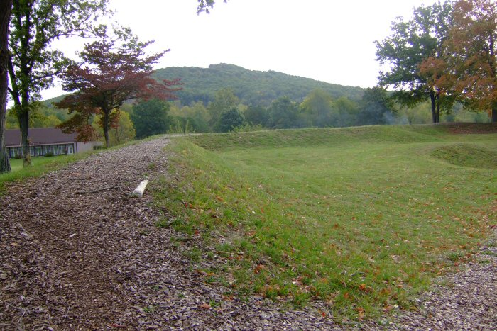 One side of Fort Davidson as seen today. At far right, one can see the crater from the blast blowing up the powder magazine. Photo by Valerie Holifield.